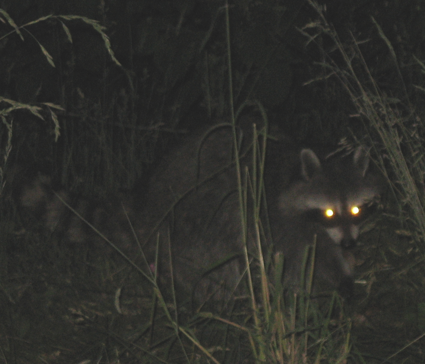 A flash photo of a raccoon, showing the eyeshine effect. Taken in southern Ontario, Canada, on June 25, 2006. --Bowlhover 23:57, 2 June 2008 (UTC)